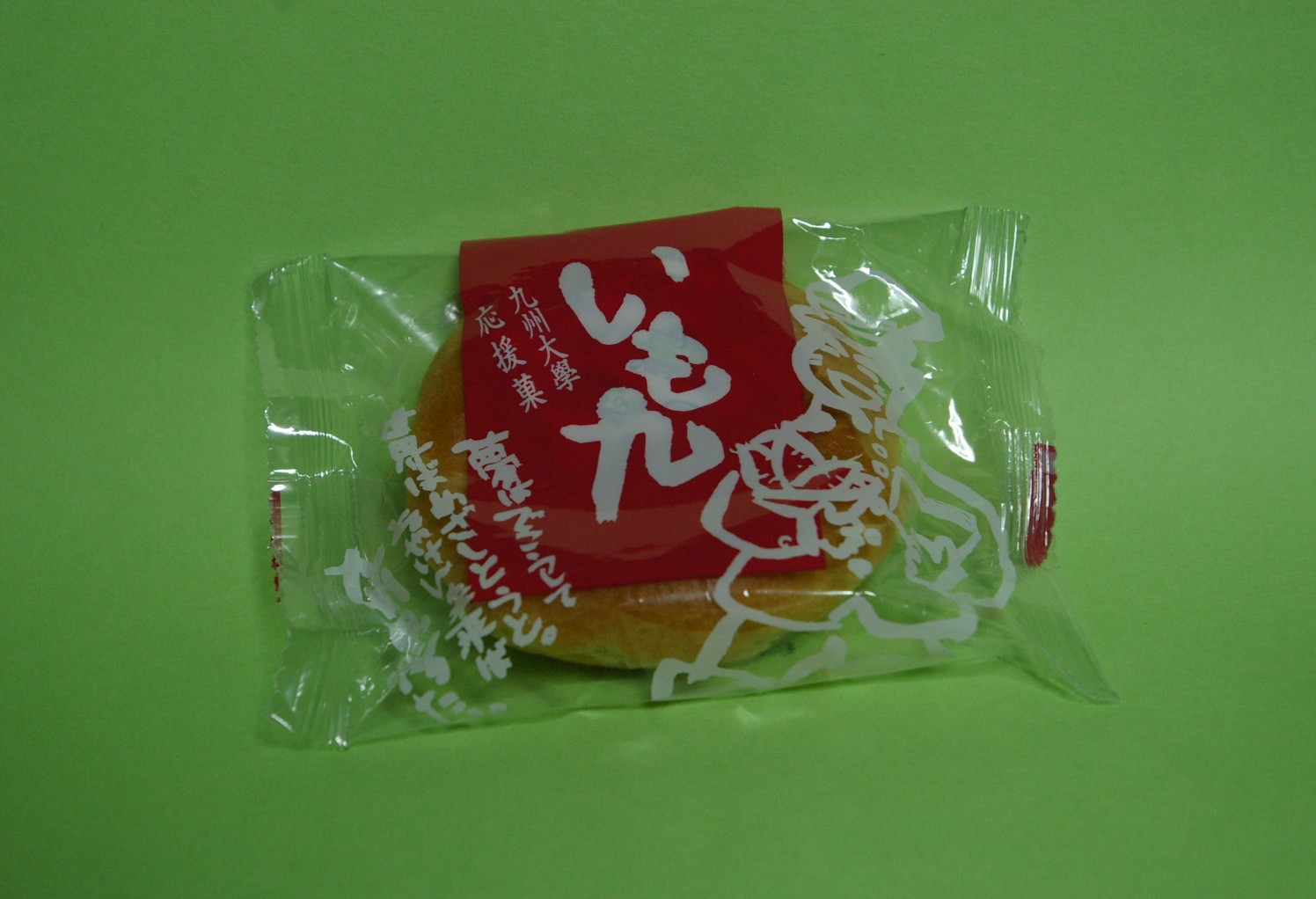 selfmade